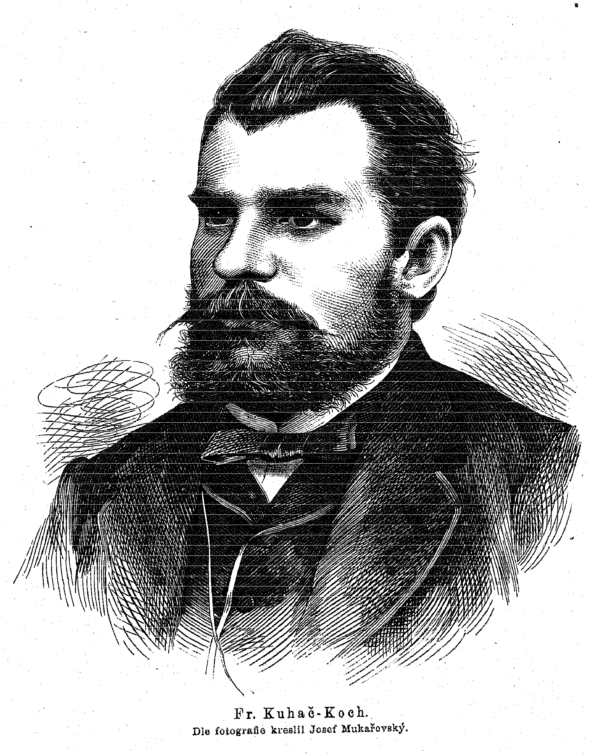 Portrait of Franjo Kuhač (1834 - 1911), Croatian composer. The caption of the picture shows "Fr. Kuhač-Koch"; according to his biography in the same magazine (in Czech), "Koch" was his native family name which he changed into a Slavic form later in his life.